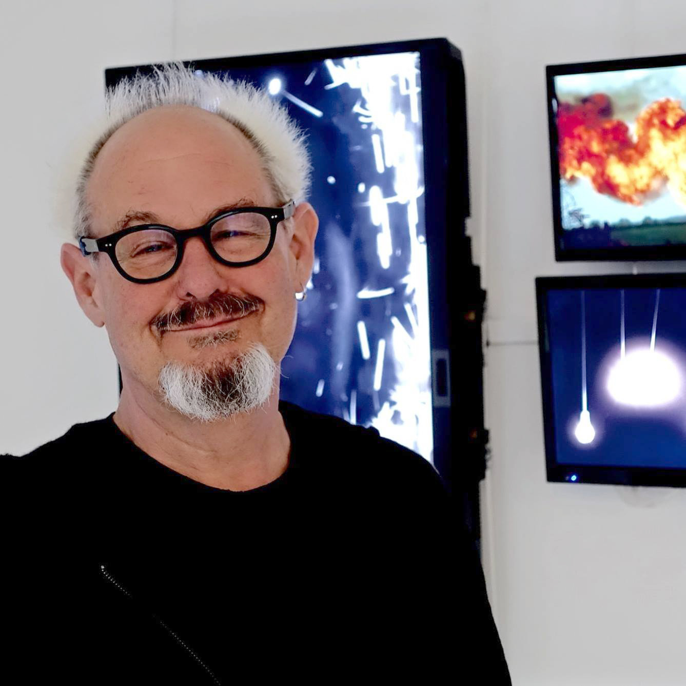 John Sanborn in Paris in 2016.